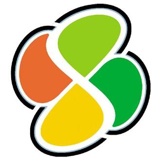 Kourei Mark, for drivers over 70 years old in Japan(from 1 Feb 2011)